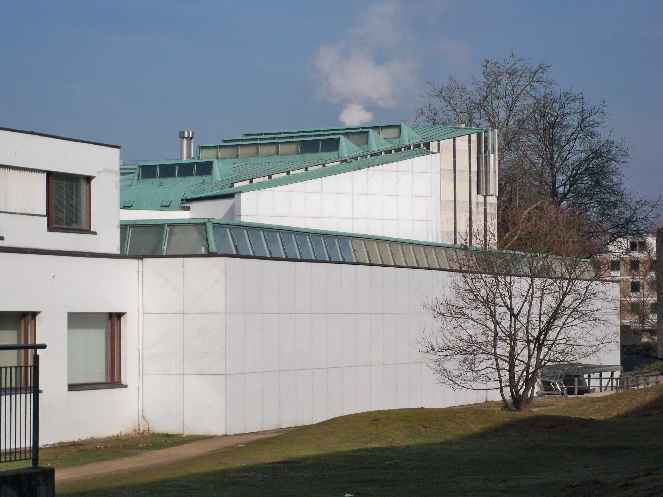 Wolfsburg, Lower Saxony, Alvar-Aalto-Kulturhaus (Alvar Aalto Cultural House) from southeast, detail